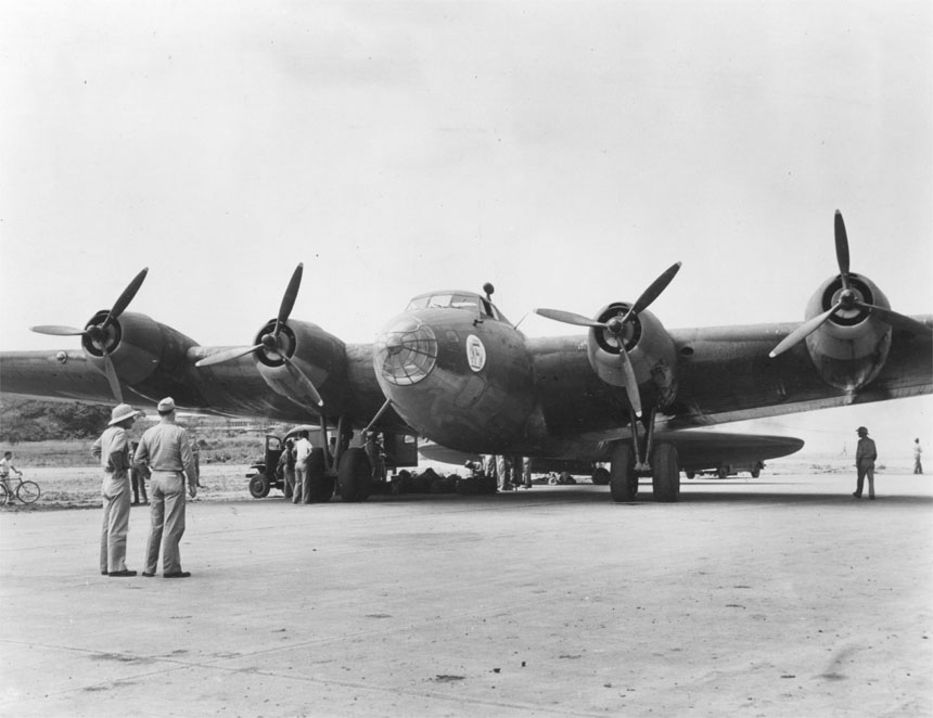 World's second largest land-plane goes to Caribbean. The B-15, huge experimental bomber built several years before the B-19, arrives in Panama for uses not disclosed by Air Force Headquarters. This plane is exceeded in size among American Aircraft only by the B-19 and the "Mars", the latter being the giant flying boat designed by Glenn Martin Company. A six-man crew flew the big ship from a base in the States to her new home in the tropics, where her arrival was the occasion of much public speculation, with most people believing her to be the more famous B-19. (49509 A.C.)